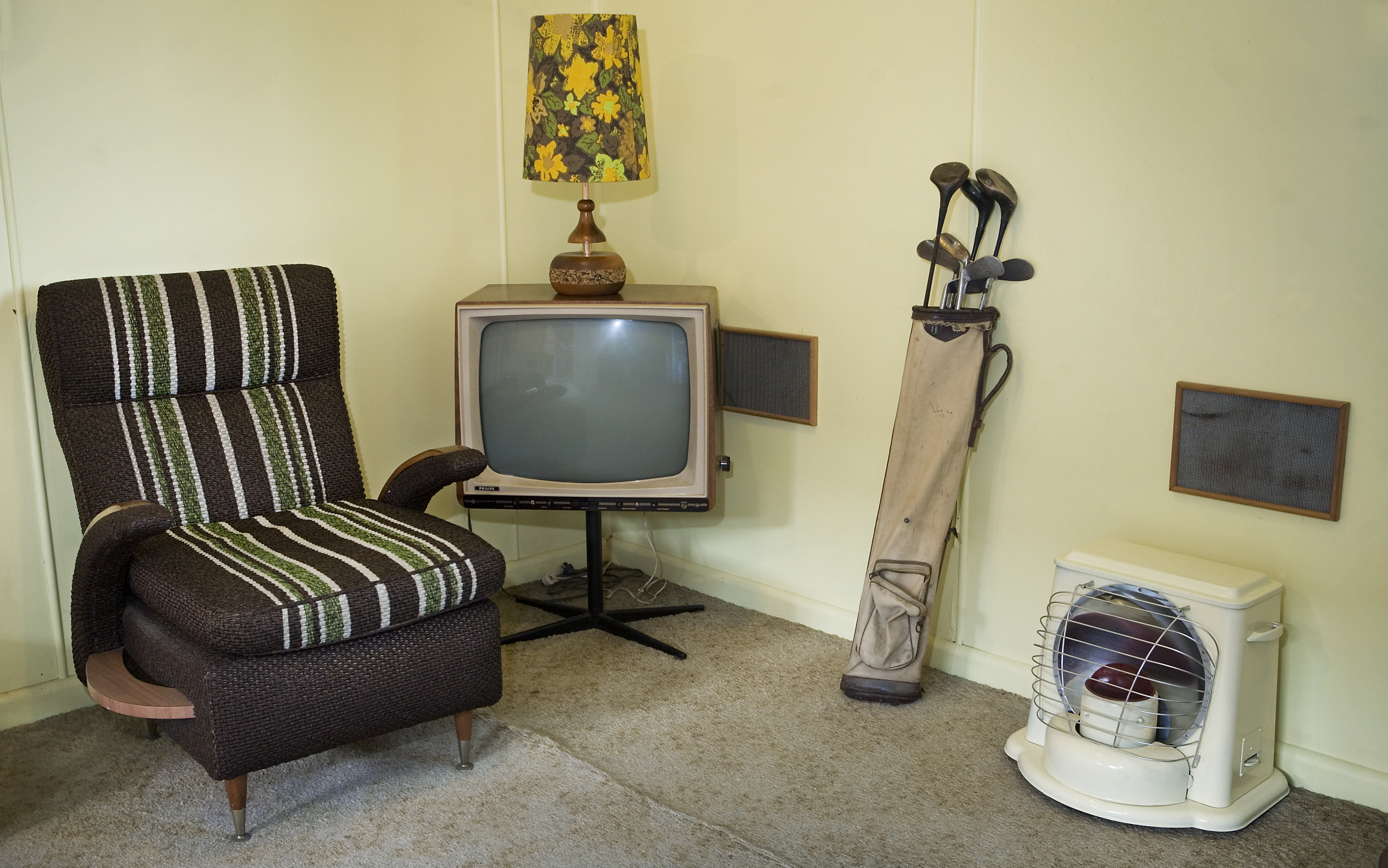 BW TV set, Golf clubs and other vintage furniture in a beach house from the ('50s house or 50's house) Auckland, New Zealand